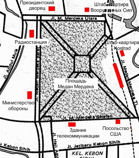 Map of Merdeka Square, Jakarta. September, 30 1965.